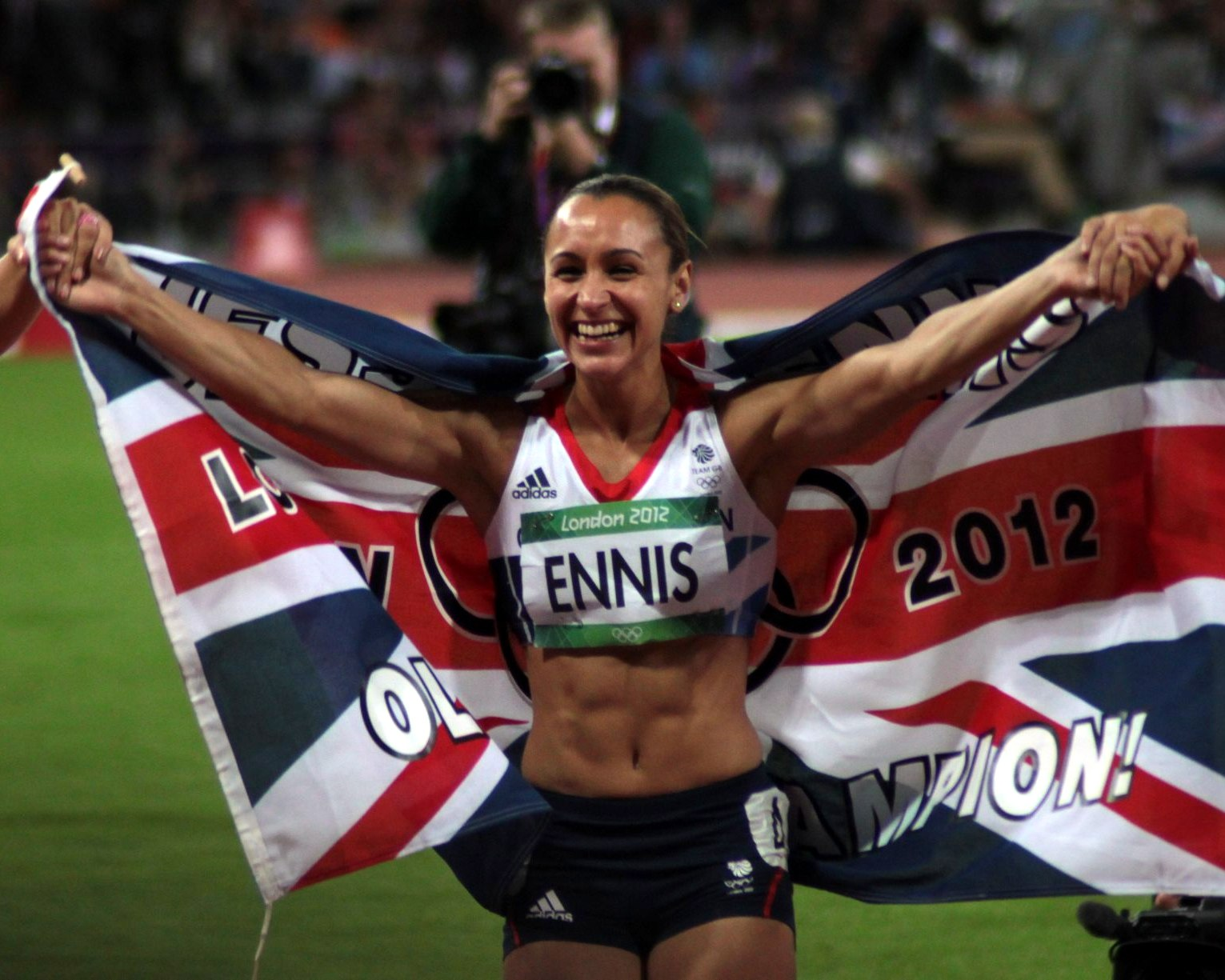 Jessica Ennis with the UK flag after winning gold in the heptathlon at the 2012 Summer Olympics